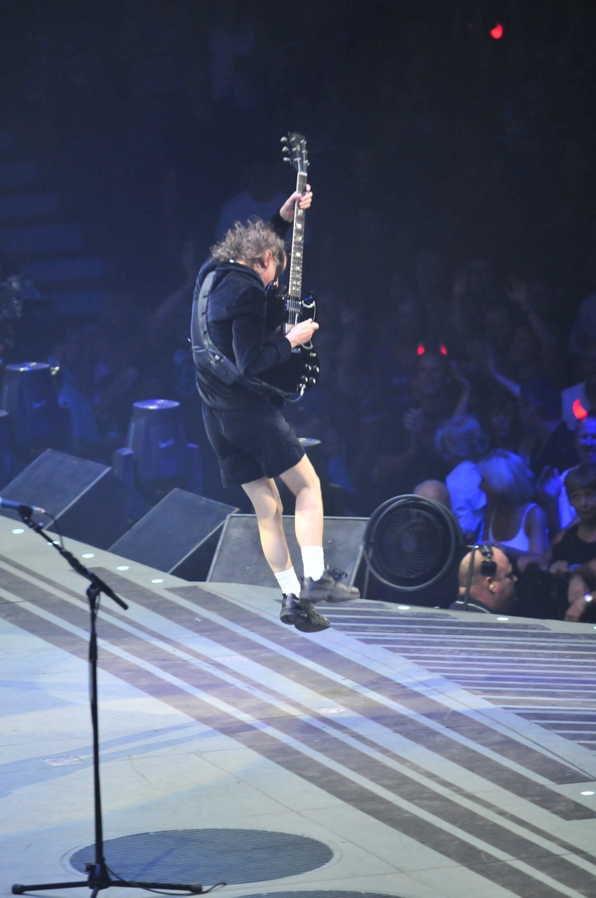 I, Adrian Buss took this picture at Scotiabank Place in Ottawa 11 August 2009. You may use it as you wish. Would be nice if you let me know. To see more of Angus and the guys antics you can go to Licensing Category:Angus Young